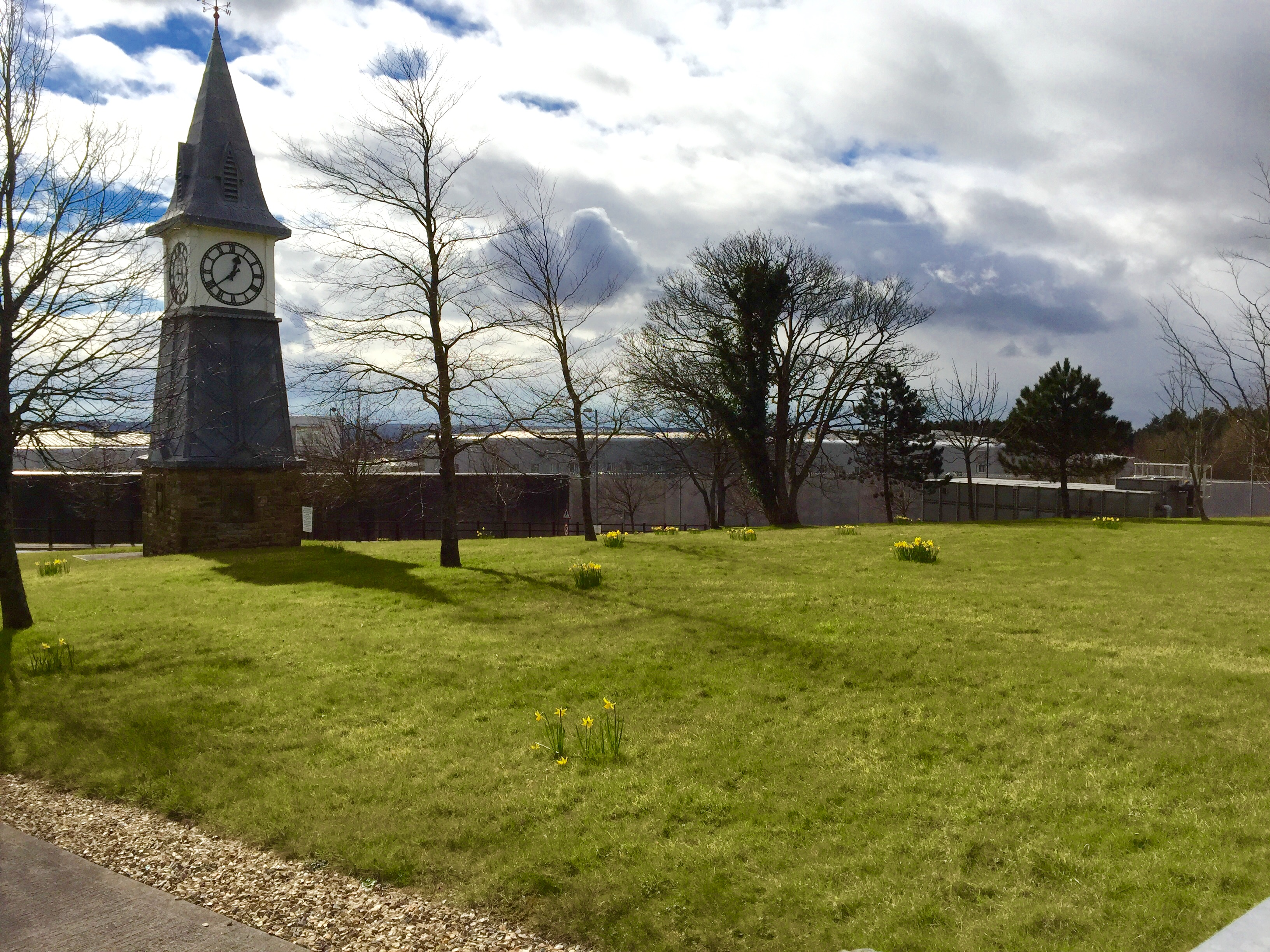 Clocktower